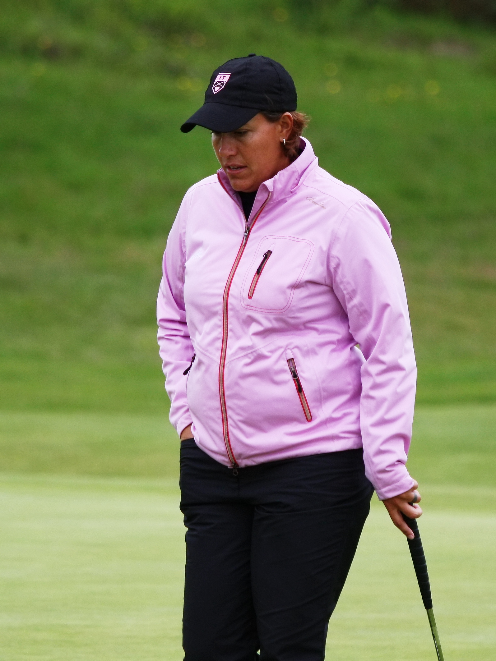 SOUTHPORT, UNITED KINGDOM - JULY 27: Iben Tinning of Denmark on the 8th green during pro-am round before 2010 Ricoh Women's British Open held at Royal Birkdale on July 27, 2010 in Southport, England. (Photo by Wojciech Migda)